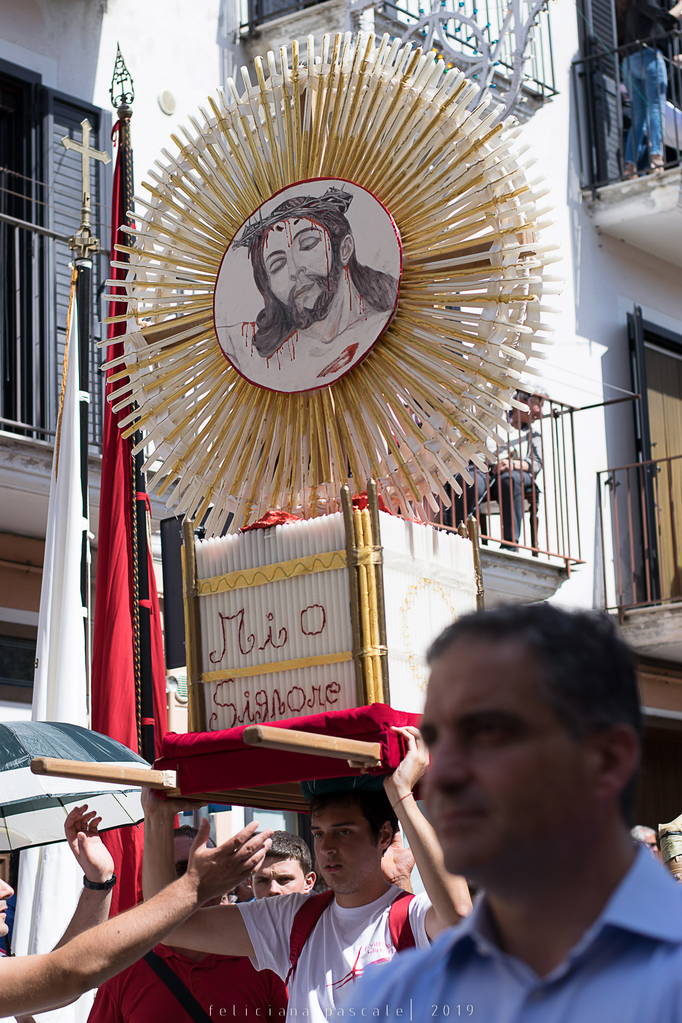 Cinto votivo al SS Crocifisso del Sacro Monte di Brienza